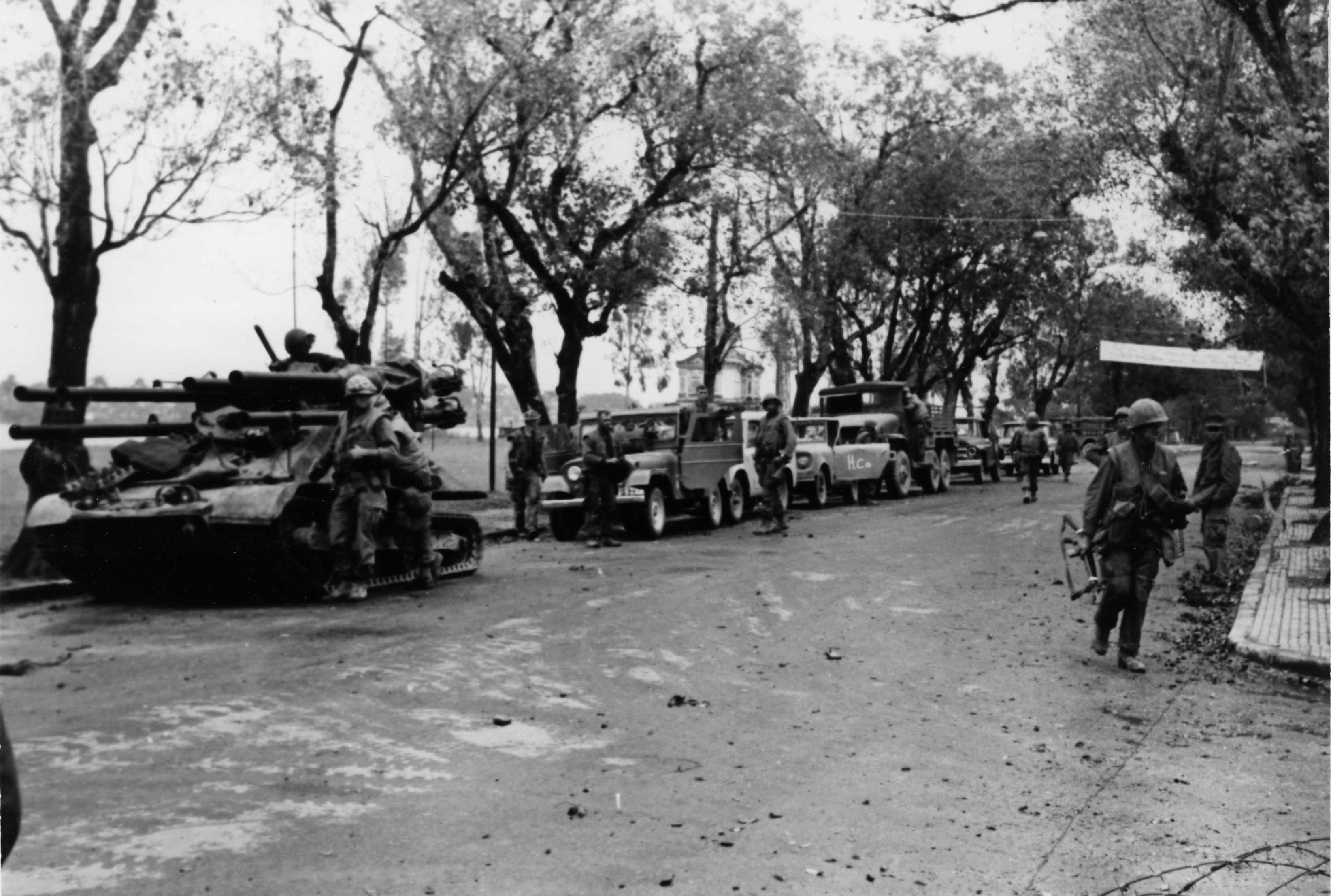 Ontos leads commandeered vehicles during the Battle for Hue City, 1968. The Ontos is spearheading the effort to MedEvac and resupply Marines. From the 1st Marine Division, Press Releases and Photographs: 1966-1971 Collection (COLL/4932), United States Marine Corps Archives & Special Collections.